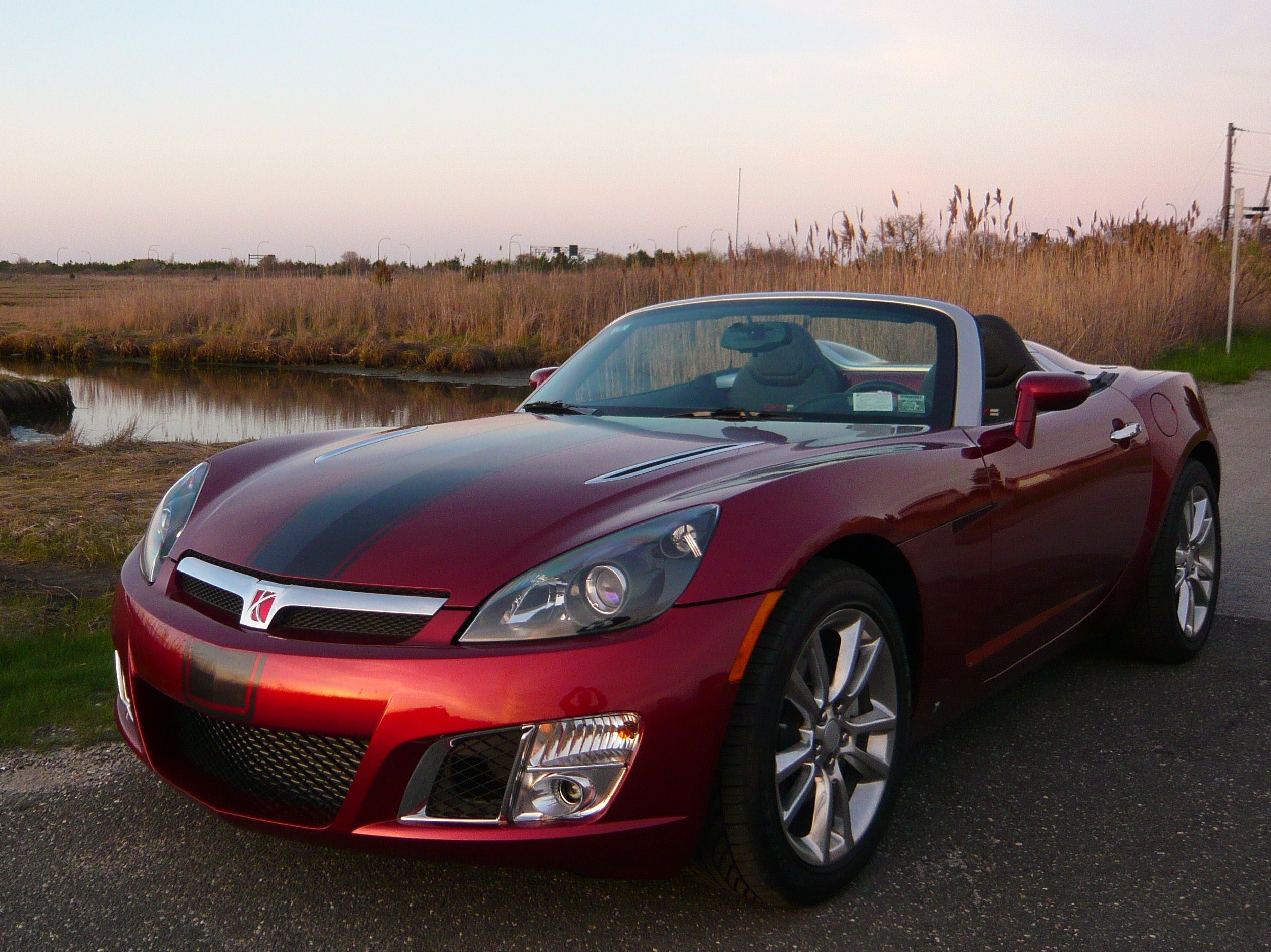 2009 Saturn Sky Redline Ruby Red Limited Edition photographed at Babylon, NY